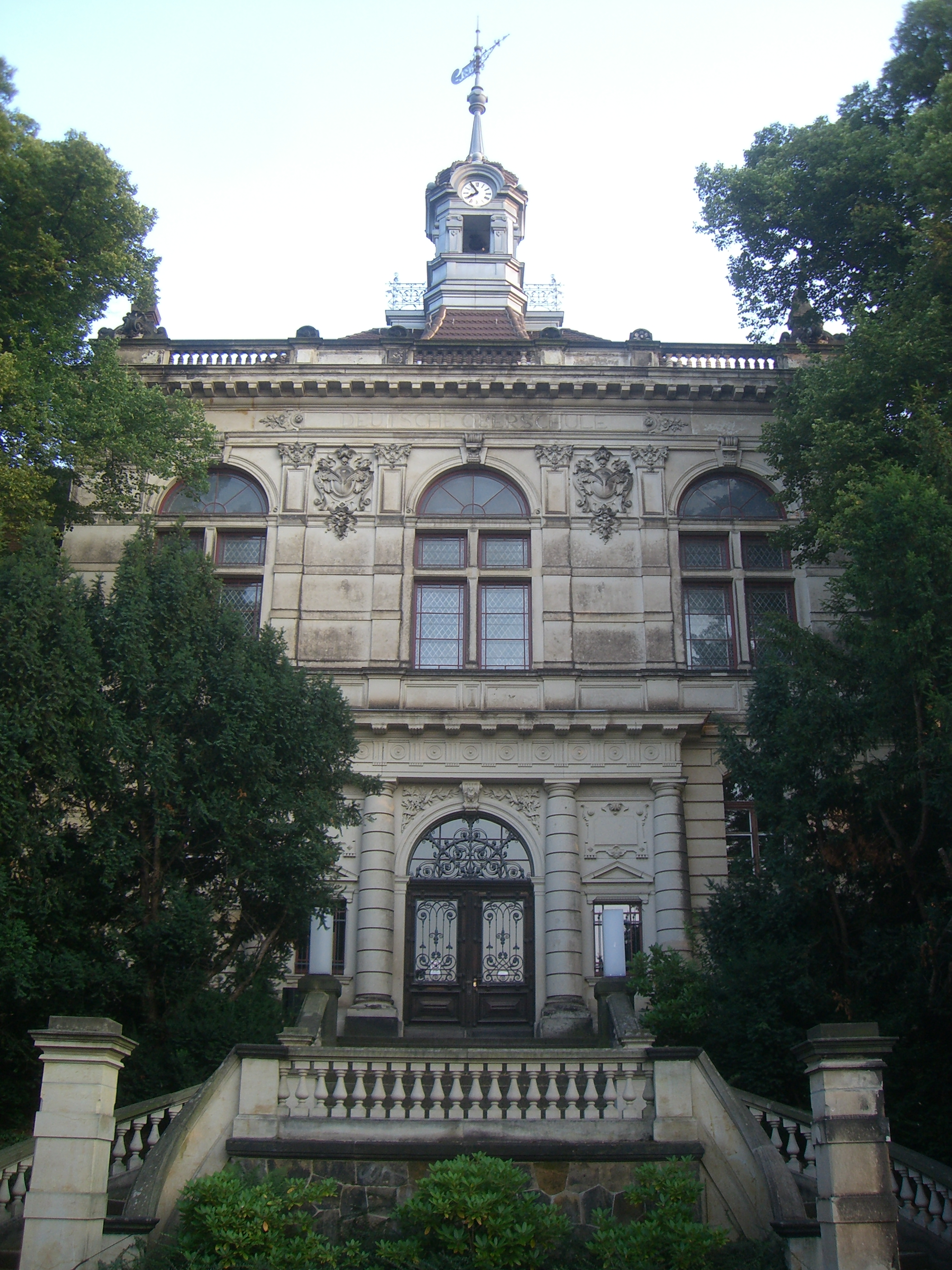 Gymnasium Dresden-Plauen, main entrance of main building